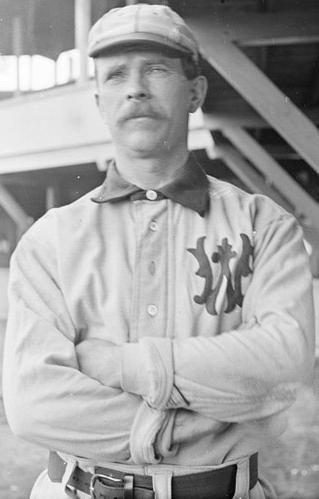 Jimmy Ryan of the Washington Senators at South Side Park in 1903.